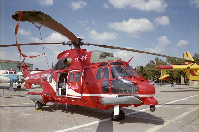 GREECE: Super Puma helicopter SX-HFF of the Hellenic Fire Service at Dekelia Air Base.